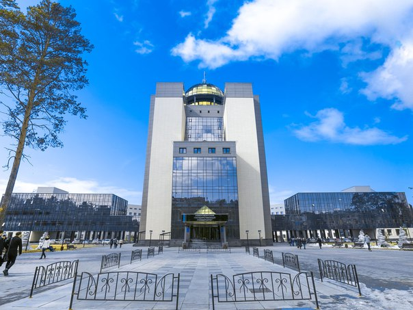 New building NSU